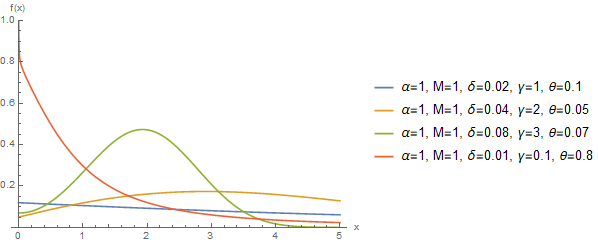 Hyperbolastic Type III Probability Density Function with varying parameters.